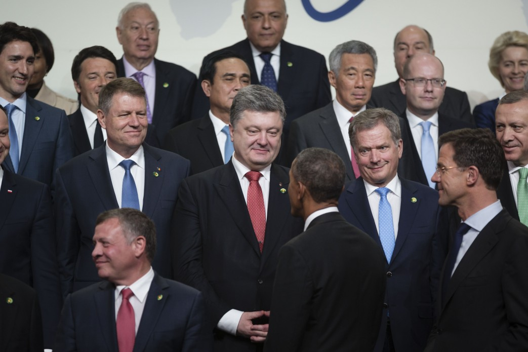 Working visit to the United States